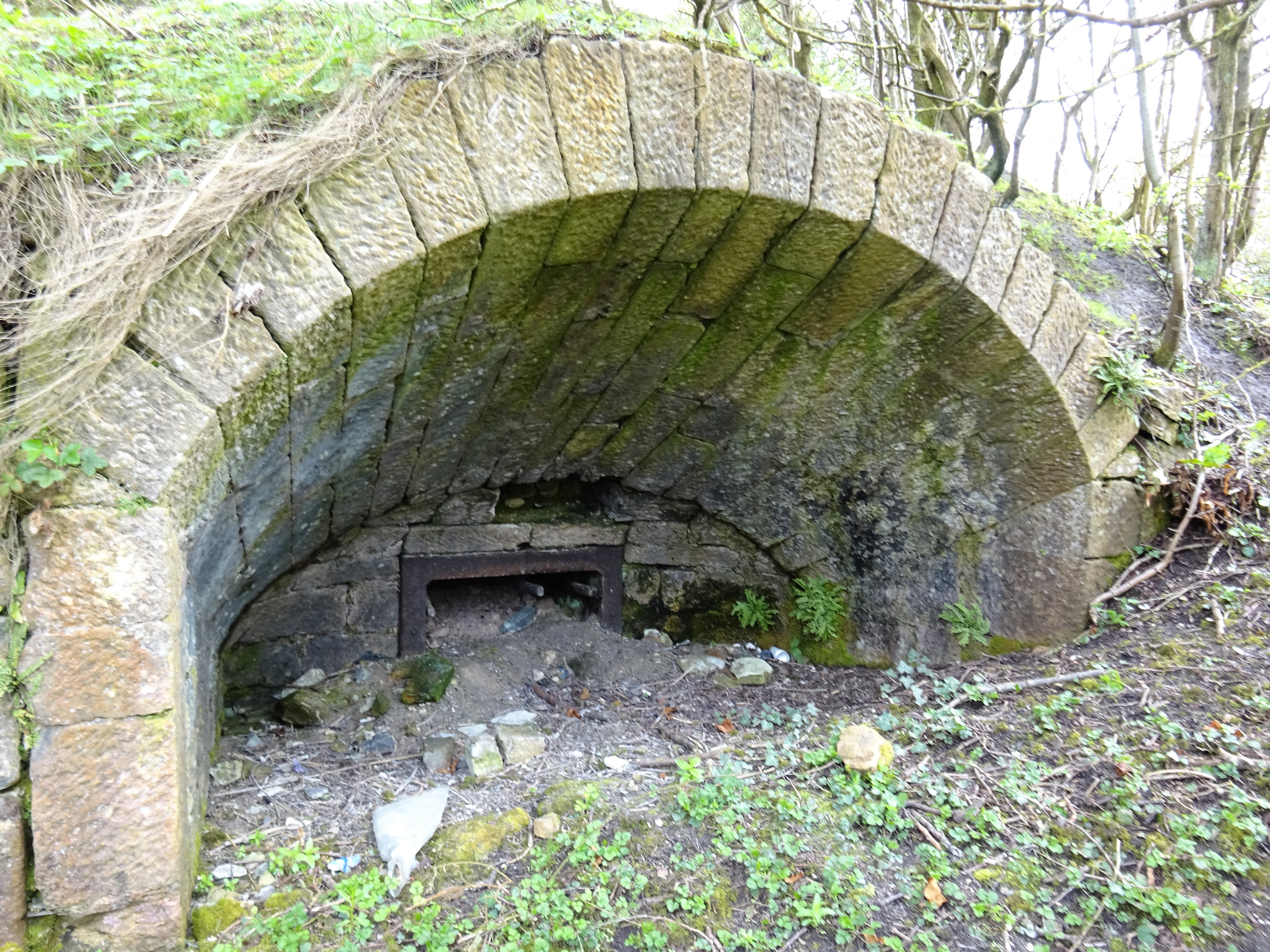 Blacksyke Lime Kilns, Caprington, East Ayrshire - one of the kiln eyes - west side.